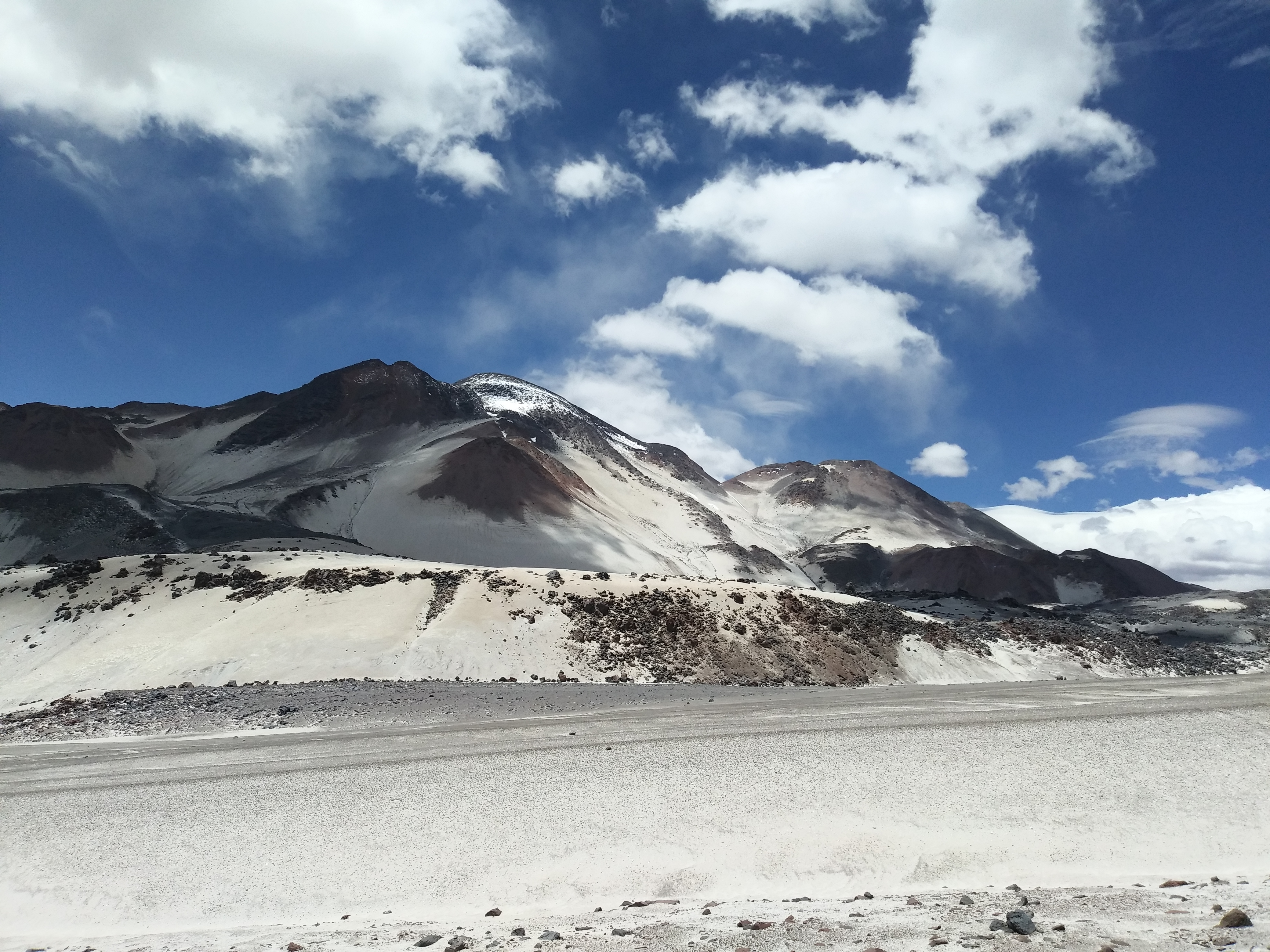 Western slopes of Cerro El Muerto in February of 2020, as viewed from the trail to adjacent peak Ojos del Salado.